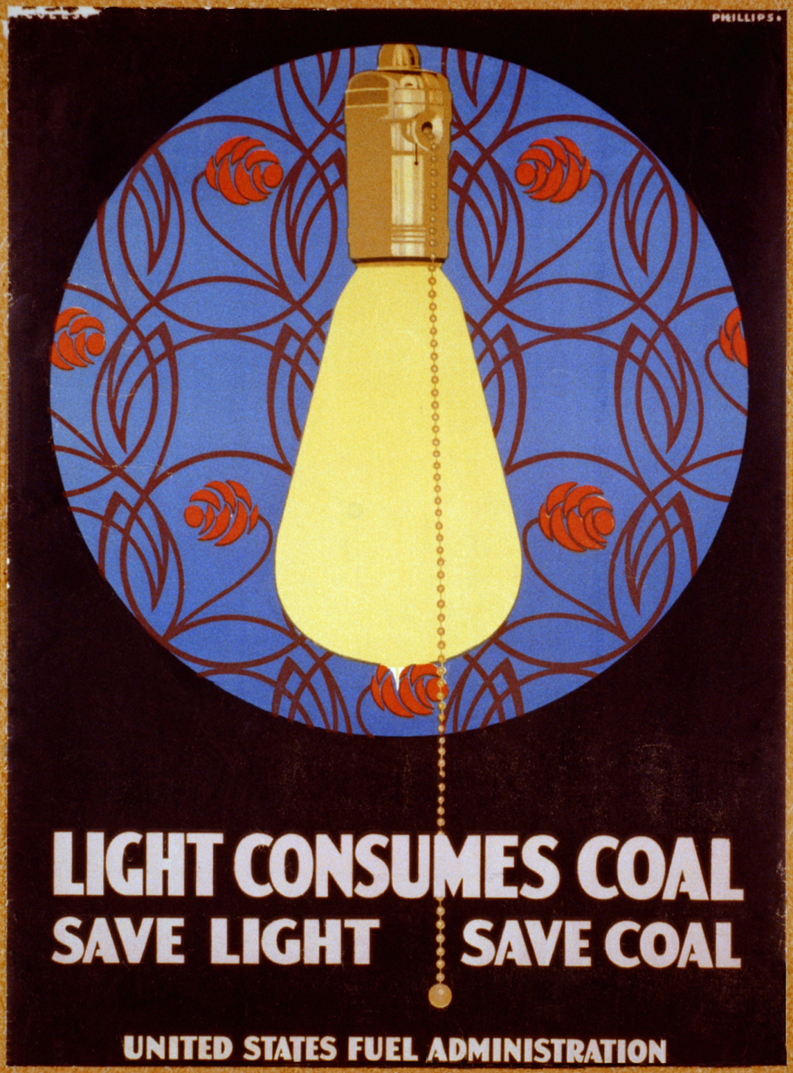 World War I poster by American illustrator Coles Phillips (1880-1927). "Light consumes coal. Save light, save coal. United States Fuel Administration."